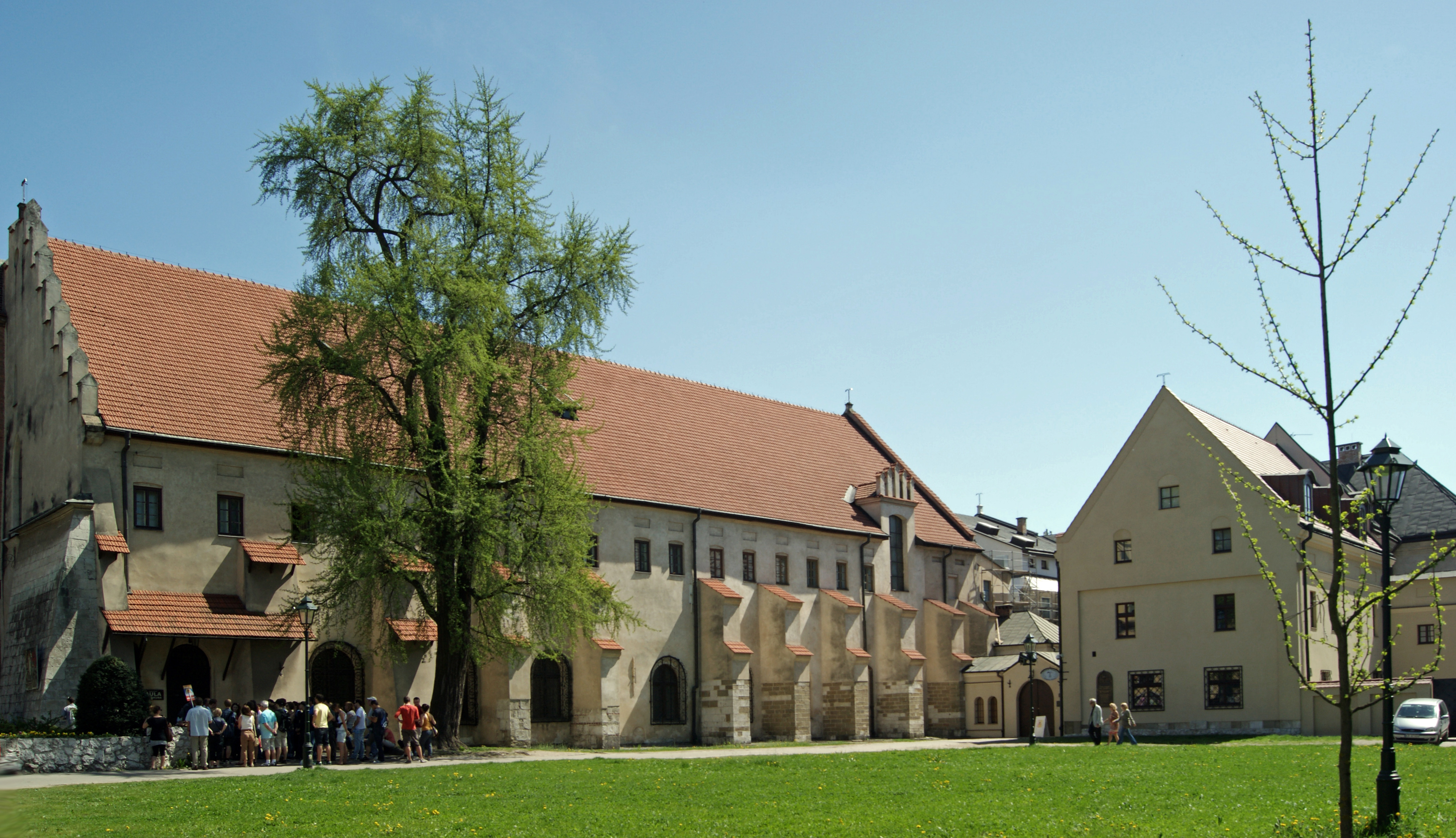 Franciscan monastery, 2 Franciszkanska street, Old Town, Krakow, Poland